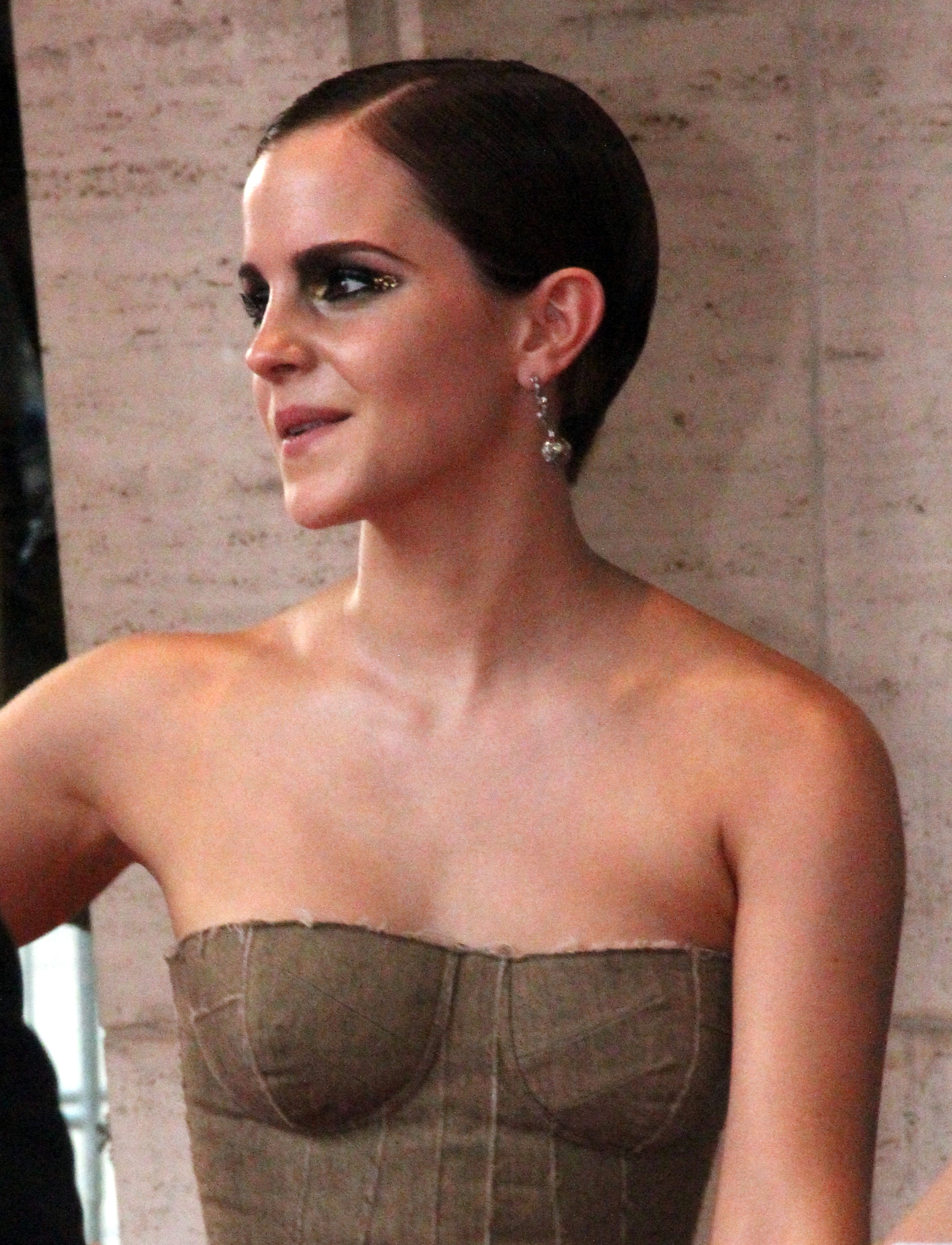 Emma Watson at the film premiere of Harry Potter and The Deathly Hallows: Part 2 in Avery Fisher Hall-Lincoln Center, New York City in July 2011.